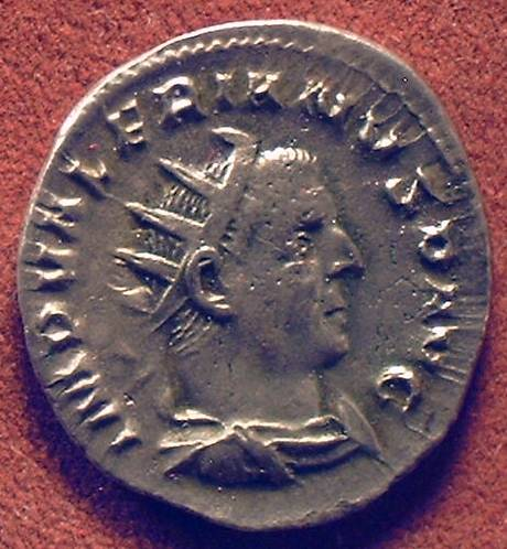 Antoninian of Valerianus Valerianus